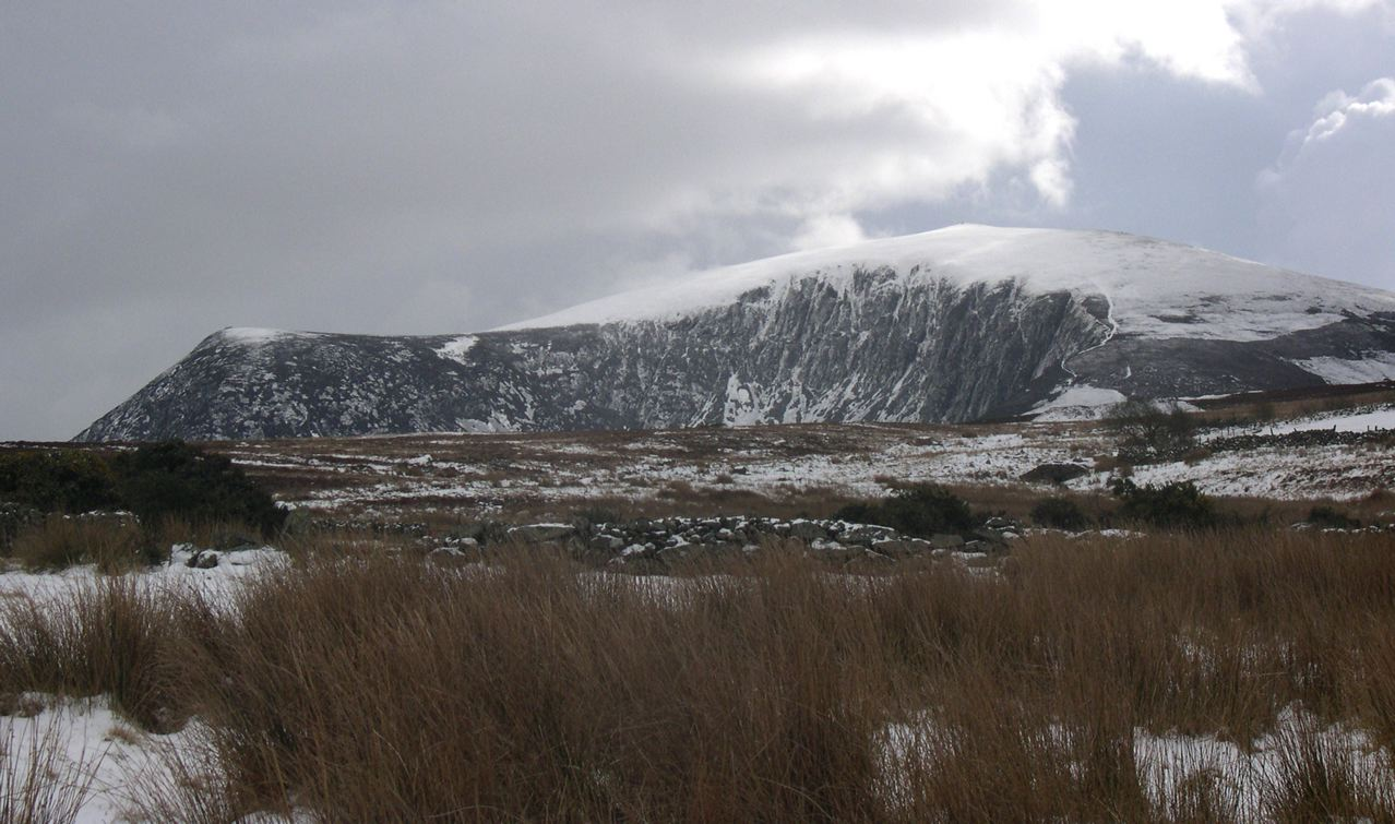 Mynydd Mawr (Elephant Mountain) from the north in snow